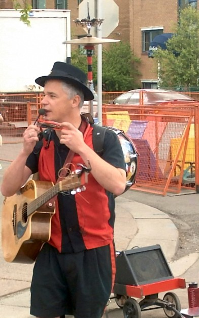 A picture of Dan the one man band in Calgary, Alberta. Taken by Dr Haggis